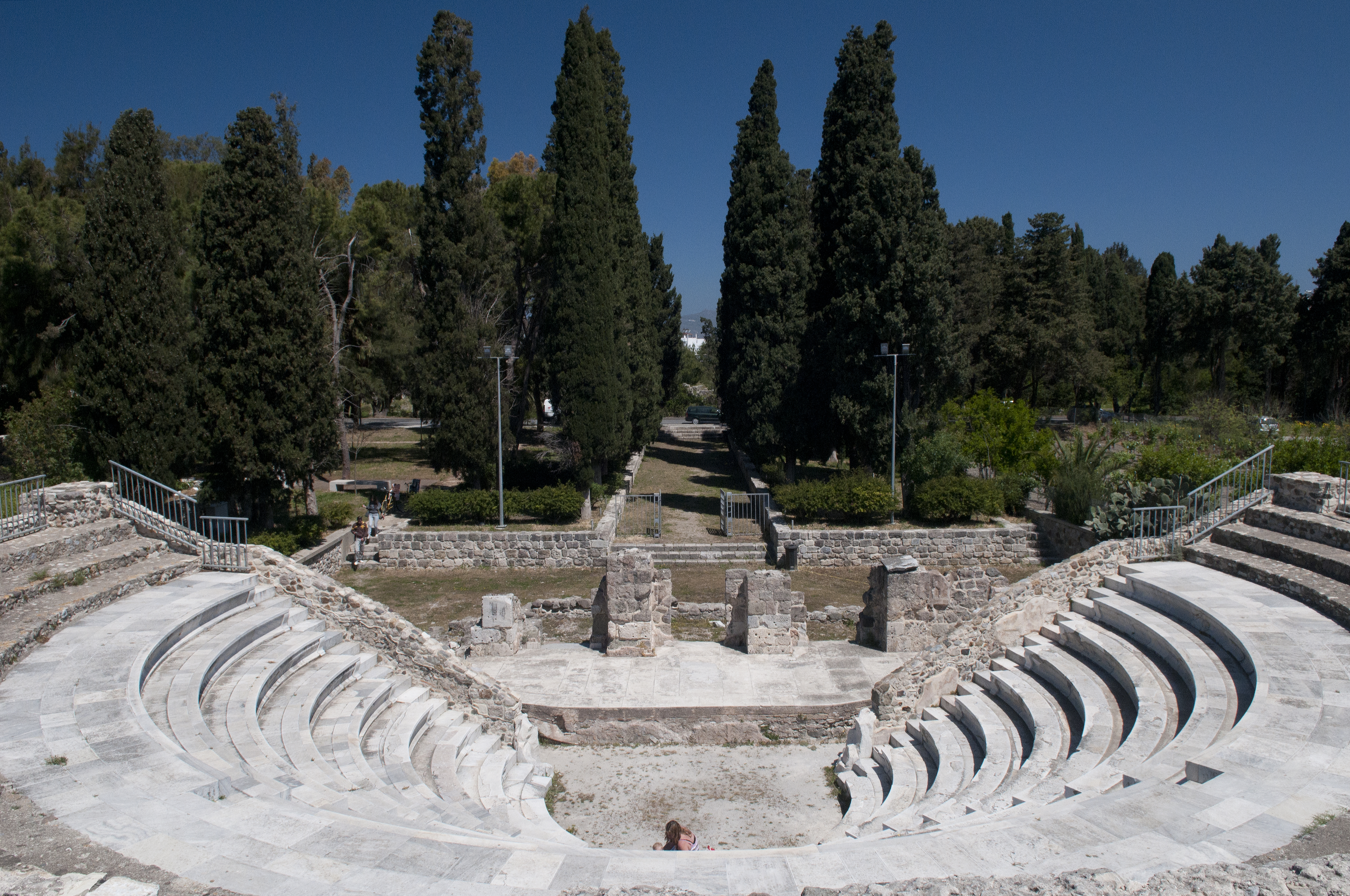 The Ancient Odeon in Kos Town.